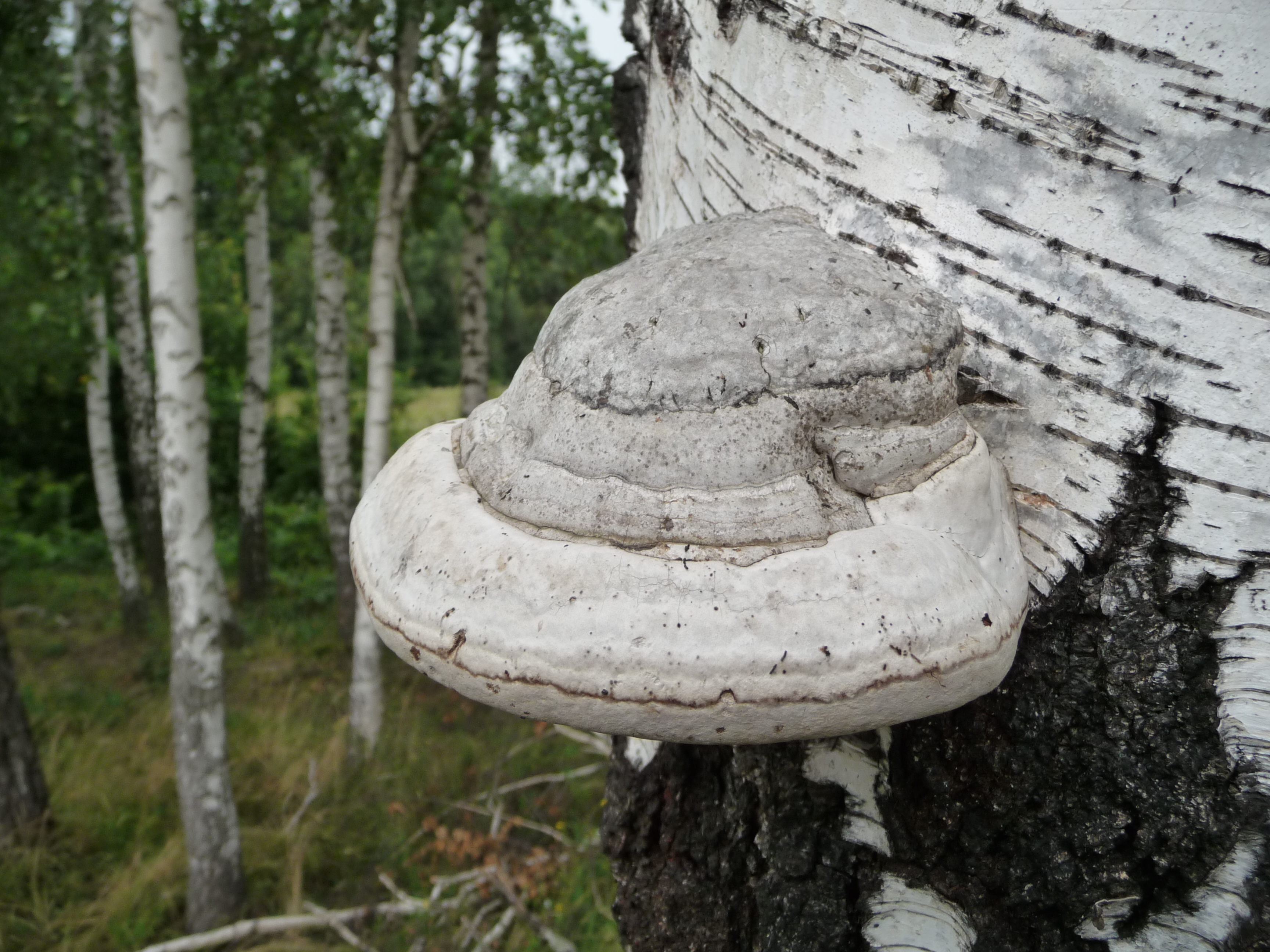 Tinder fungus Fomes fomentarius on the living birch (Betula). Ukraine.